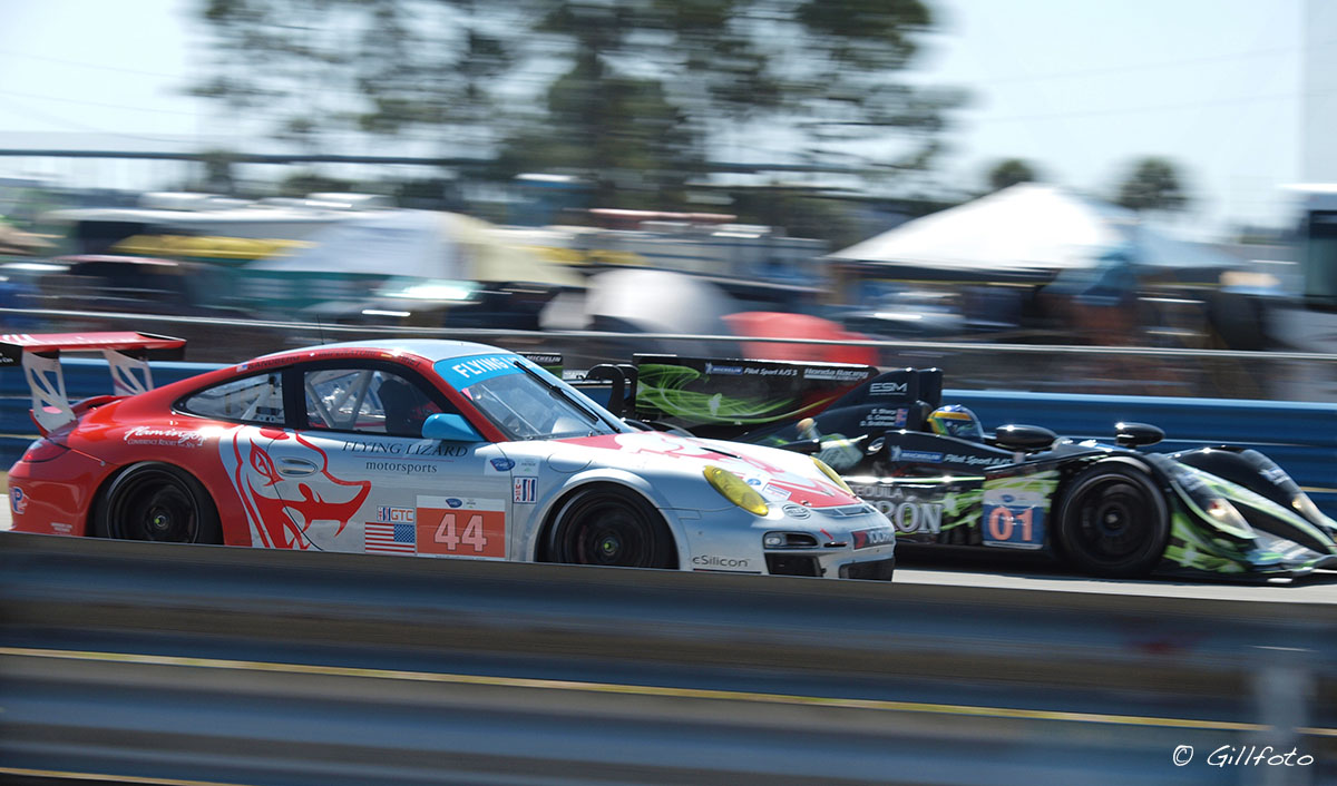 Action at the 12 Hours of Sebring 2013